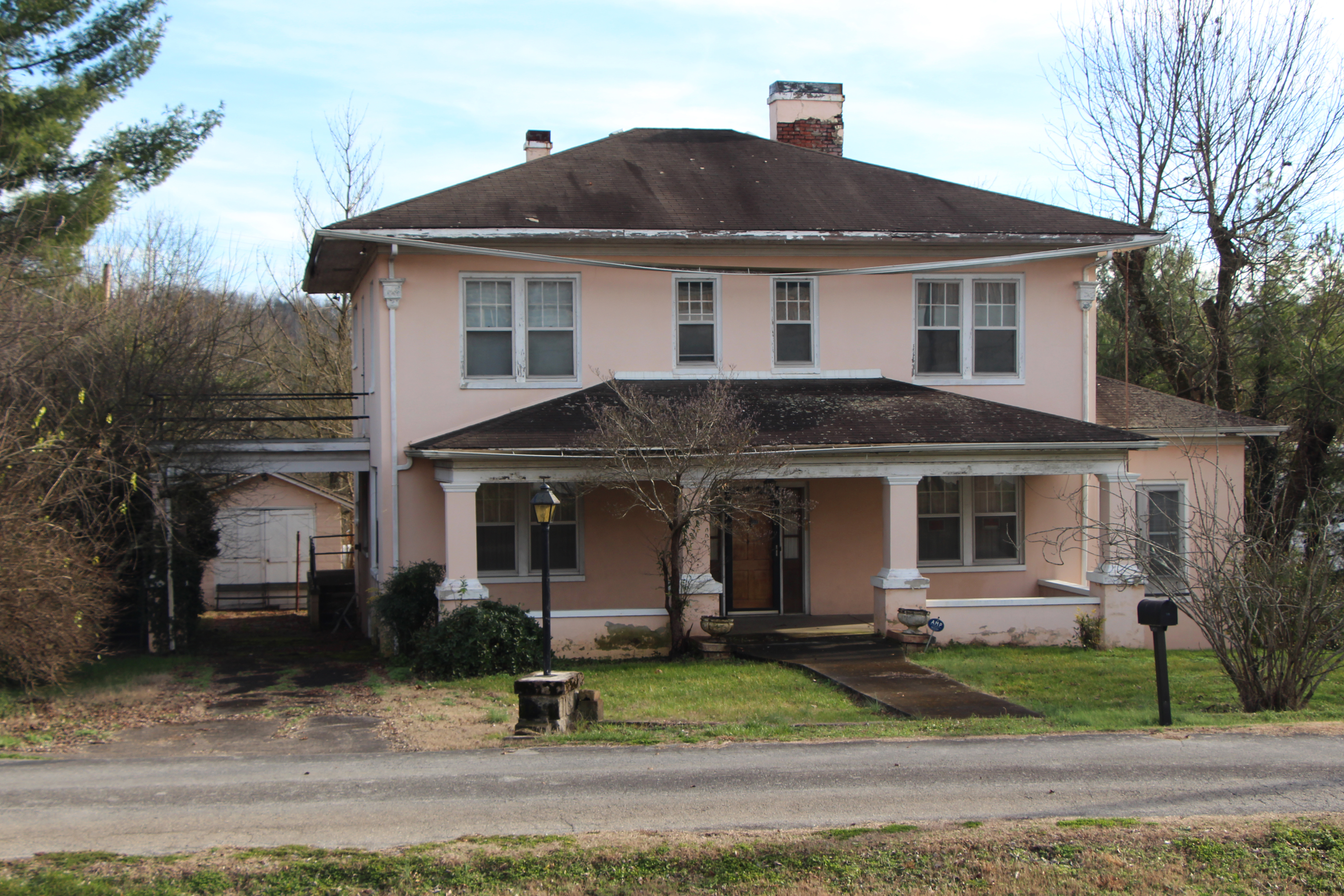 Moody Residence, 110 Mill Street, Bulls Gap, TN